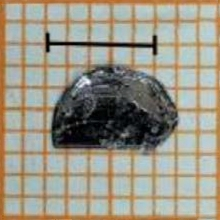 MoTe2 crystal